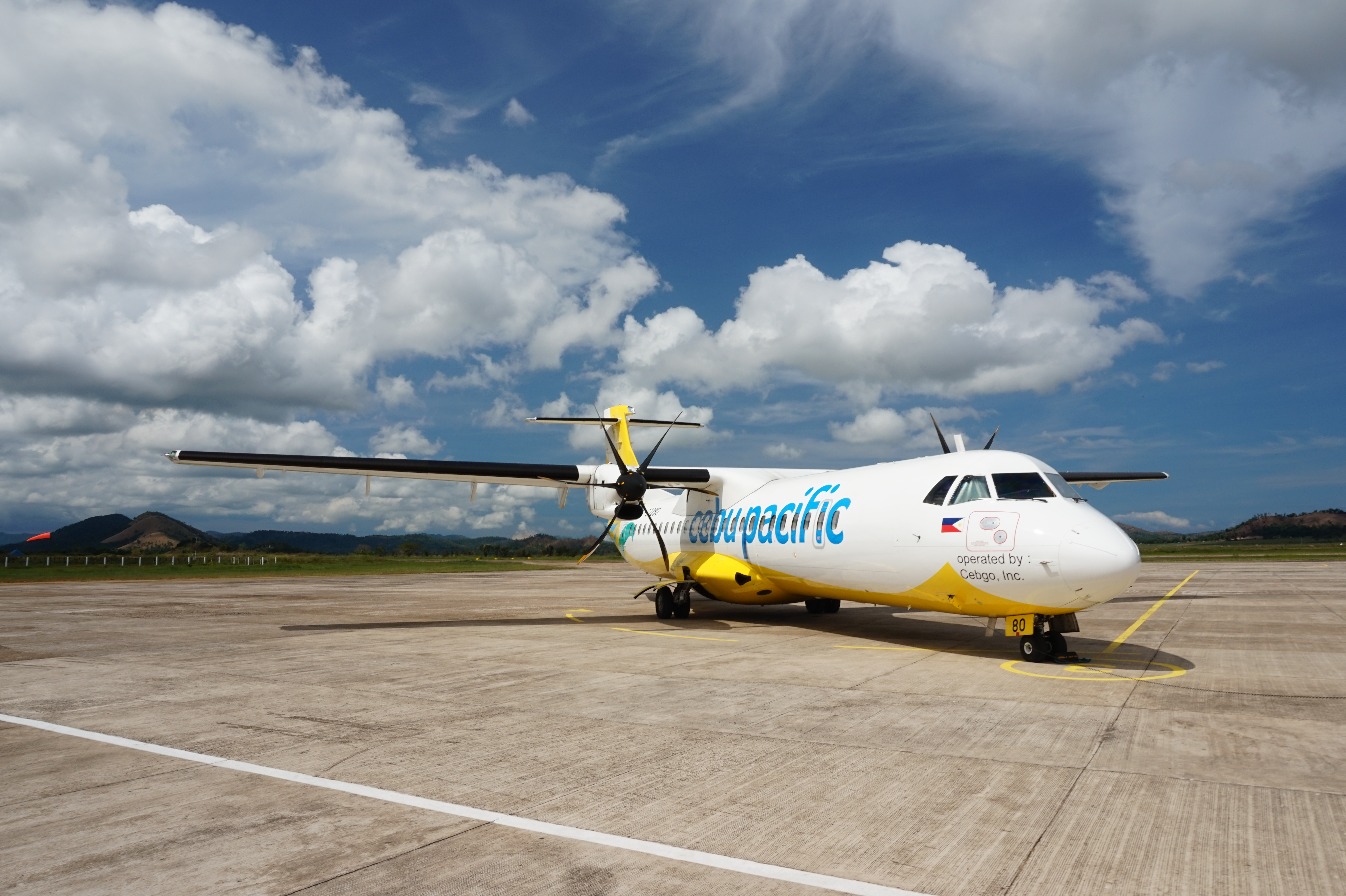 Cebu Pacific ATR 72-600 (RP-C7280) at Busuanga Airport